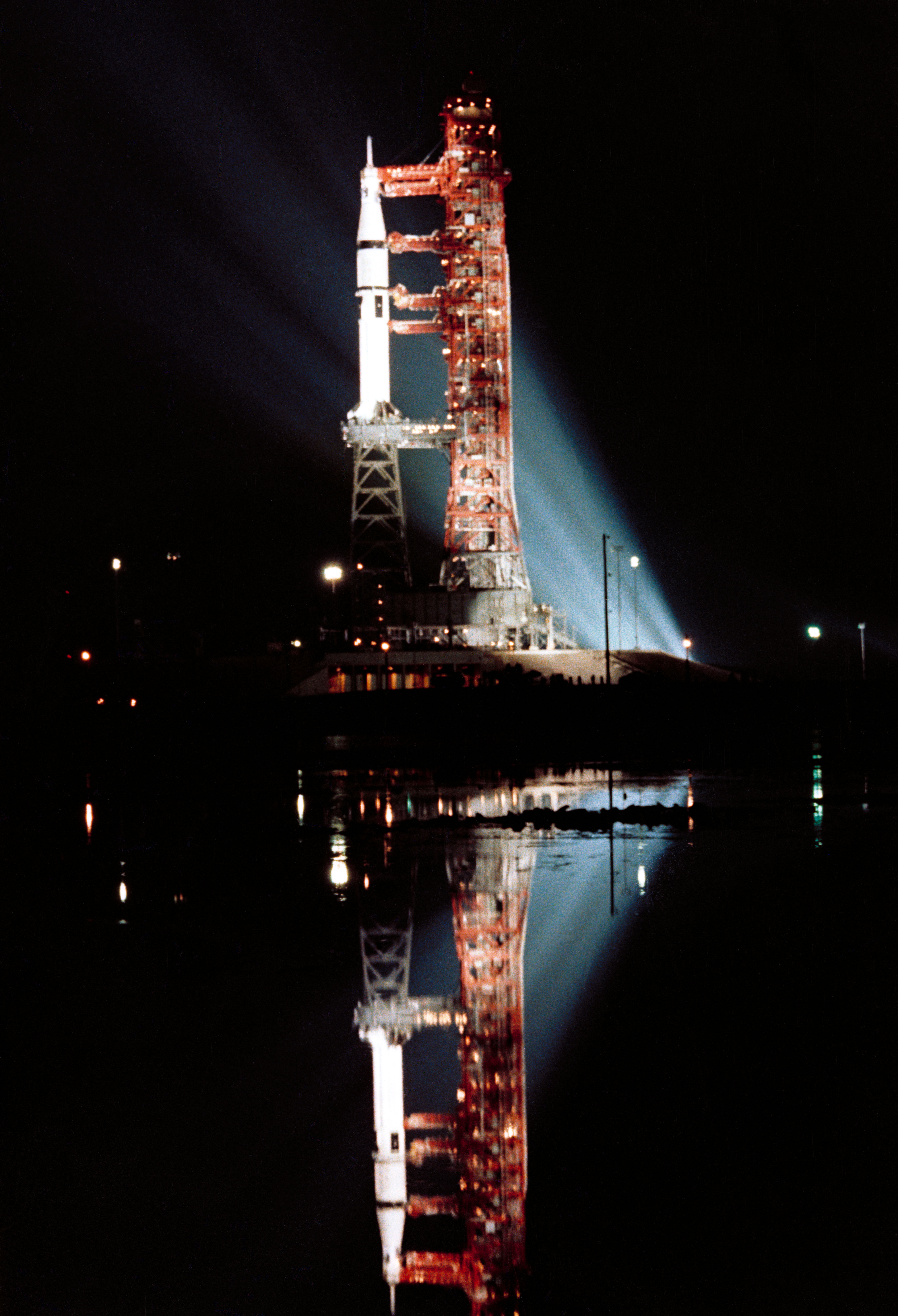 Floodlights illuminate this nighttime view of the Skylab 3/Saturn 1B space vehicle at Pad B, Launch Complex 39, Kennedy Space Center, Florida, during prelaunch preparations. The reflection is the water adds to the scene. In addition to the Command/Service Module and its launch escape system, the Skylab 3 space vehicle consists of the Saturn 1B first (S-1B) stage and the Saturn 1B second (S-IVB) stage. The crew for the scheduled 59-day Skylab 3 mission in Earth orbit will be astronauts Alan L. Bean, Owen K. Garriott, and Jack R. Lousma. Skylab 3 was launched on July 28, 1973.